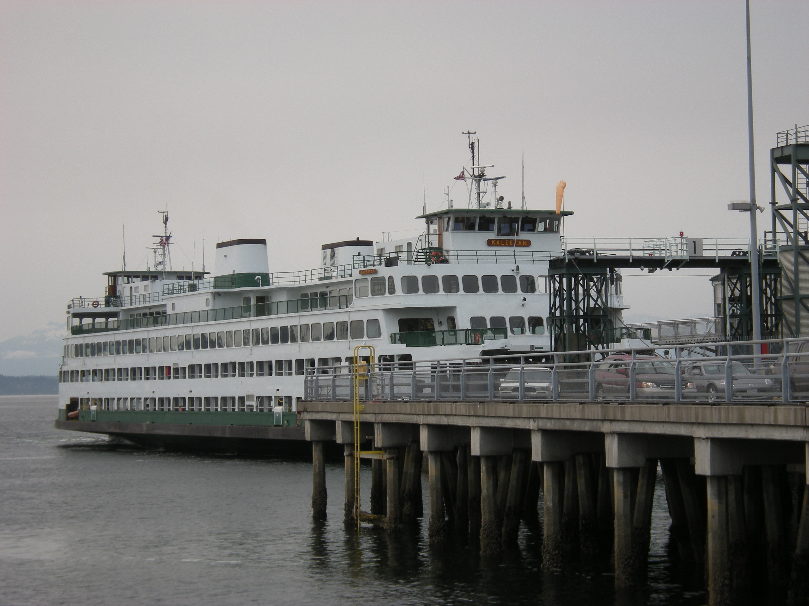 M/V Kaleetan docked at Washington State Ferry Terminal, Seattle, Washington.